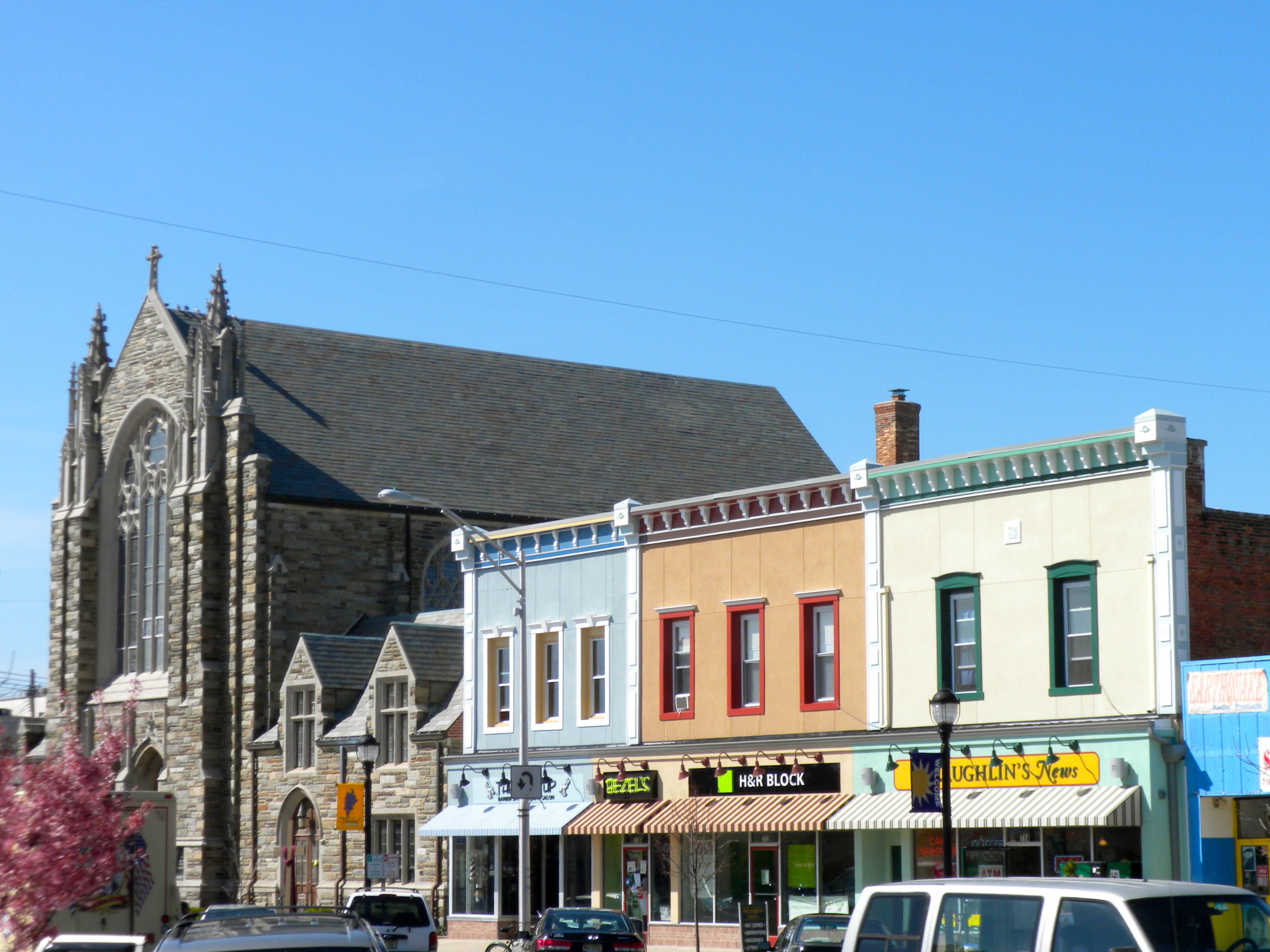 Downtown Vineland, New Jersey in Cumberland County. Nice old downtown buildings on Landis Ave.